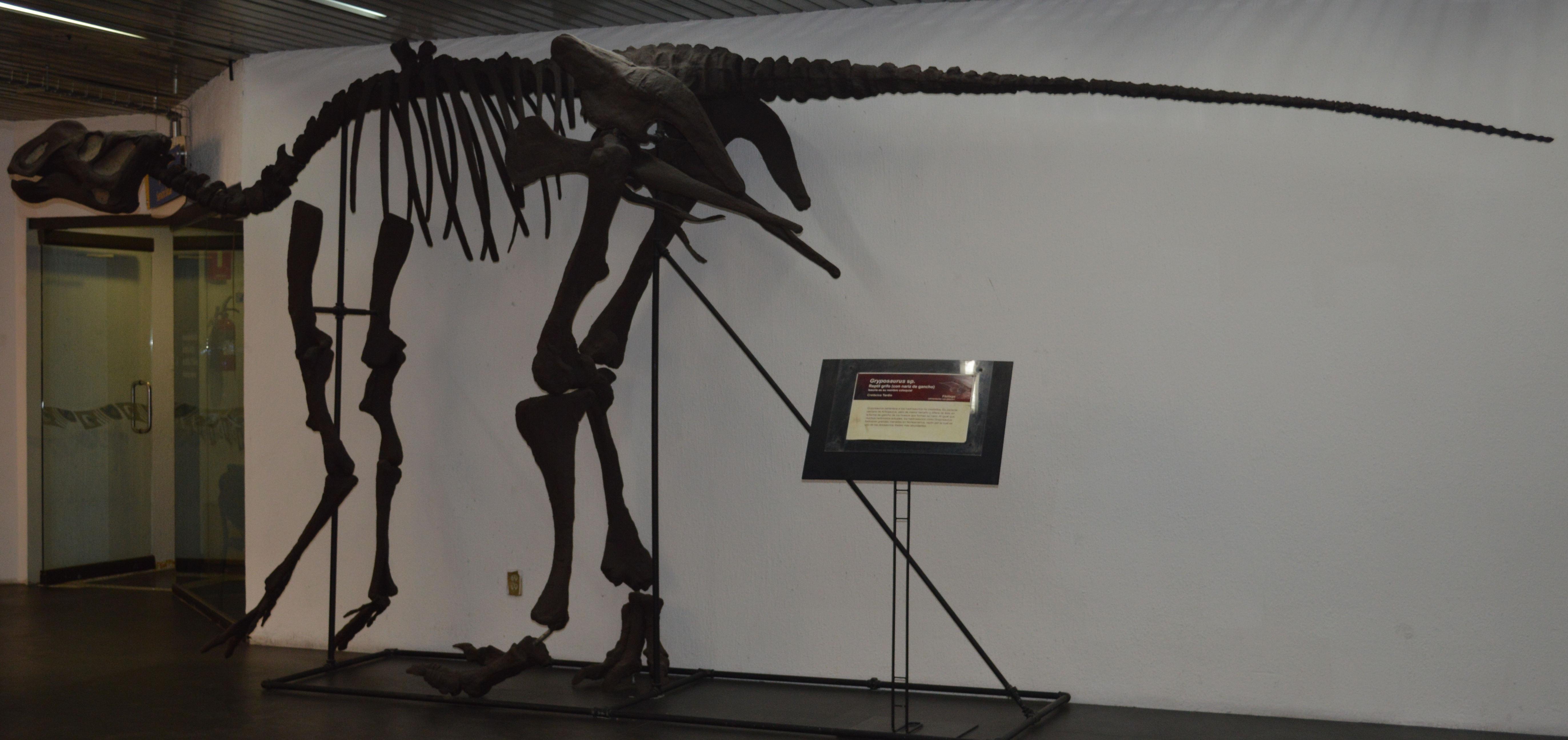 Skeleton of a Latirhinus at Universum in Ciudad Universitario in Mexico City